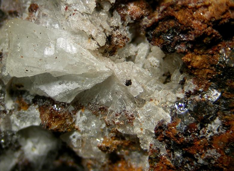 Fluellite Locality: Leveäniemi Mine, Svappavaara, Kiruna district, Lappland, Sweden (Locality at ) Colourless crystals of Fluellite. Field of view 6 mm. Specimen and photo Leon Hupperichs.